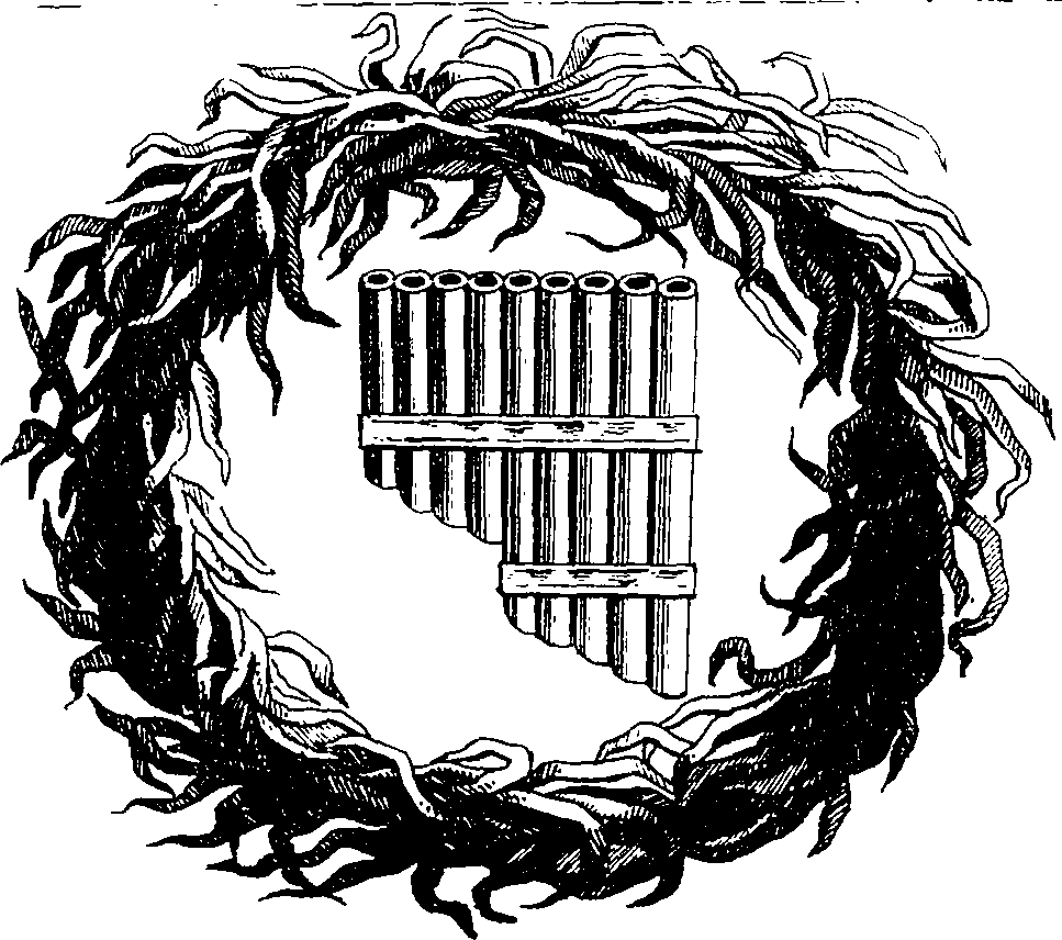 Fleuron from book: Il pastor fido tragicomedia e La idropica commedia di Battista Guarini Cavaliero di Santo Stefano patrizio ferrarese, e segretario d' Alfonso d' Este II Duca Diferrara, Modena &c.